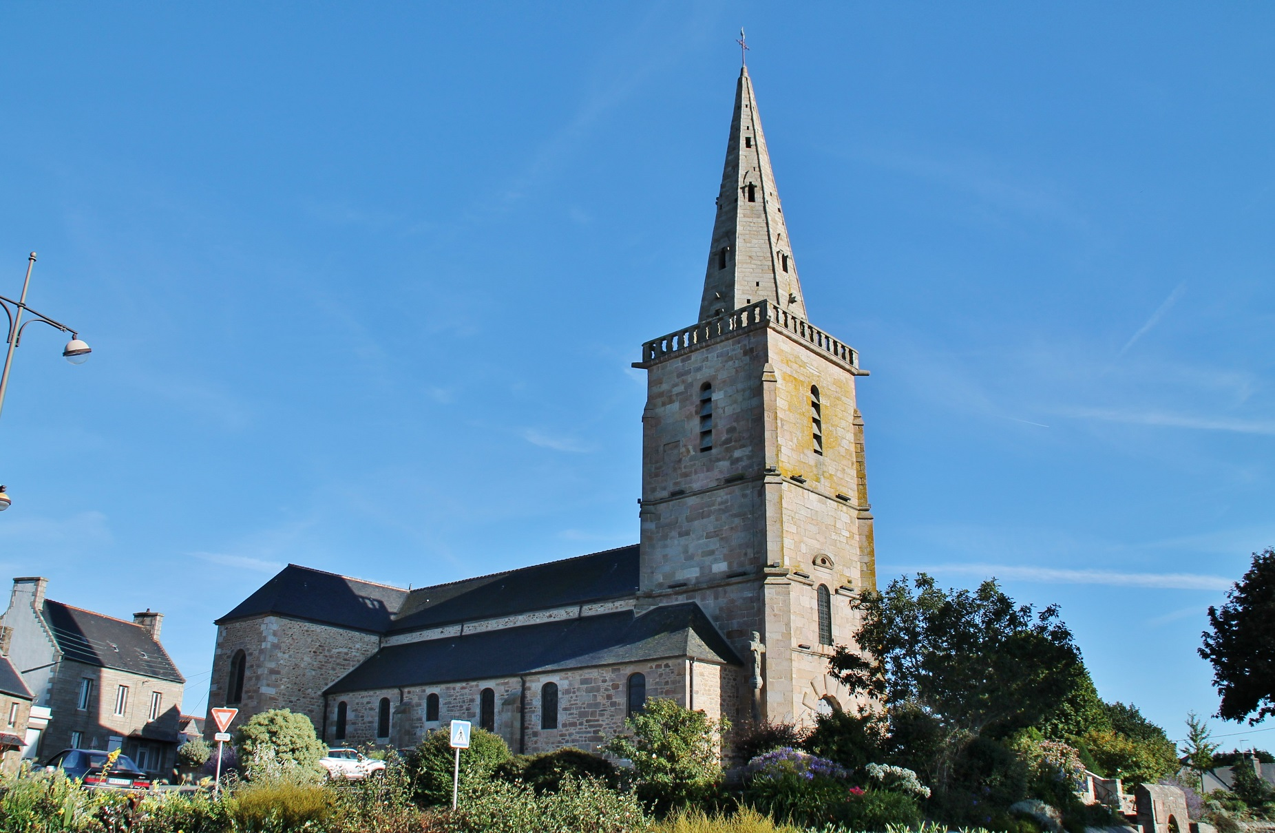 église de la Sainte-Trinité